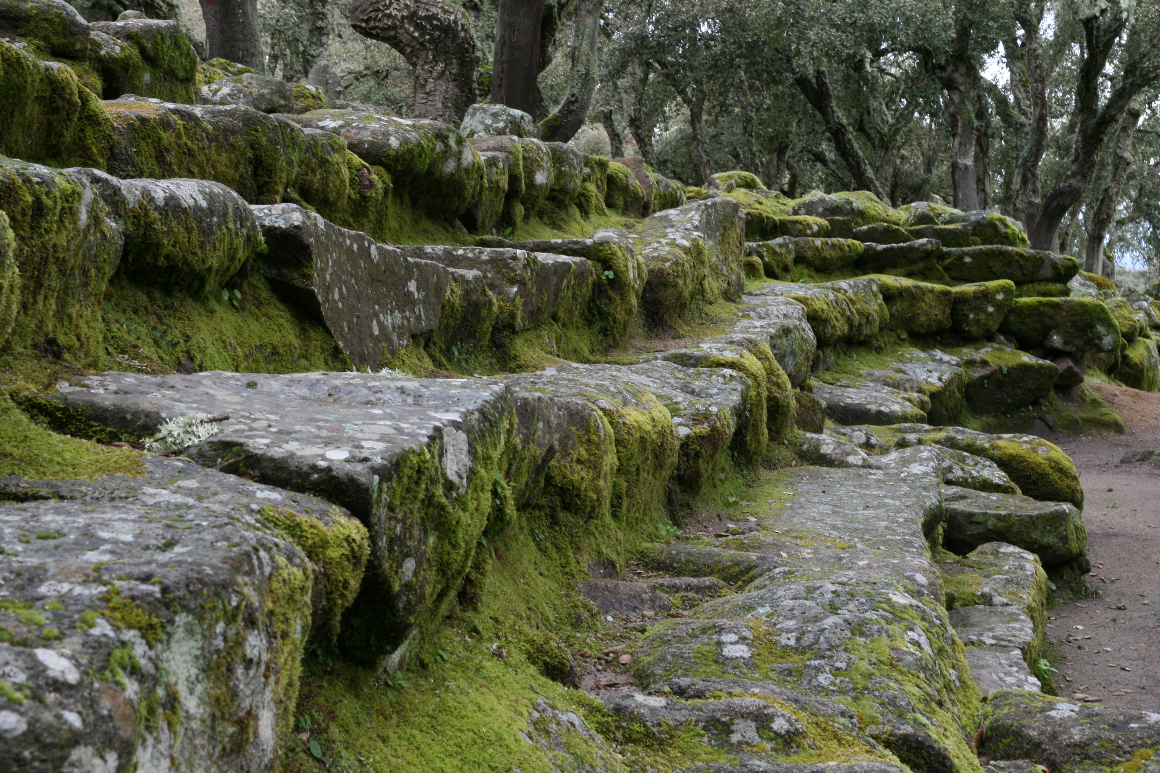 Nuraghi site of Romanzesu, Sardinia